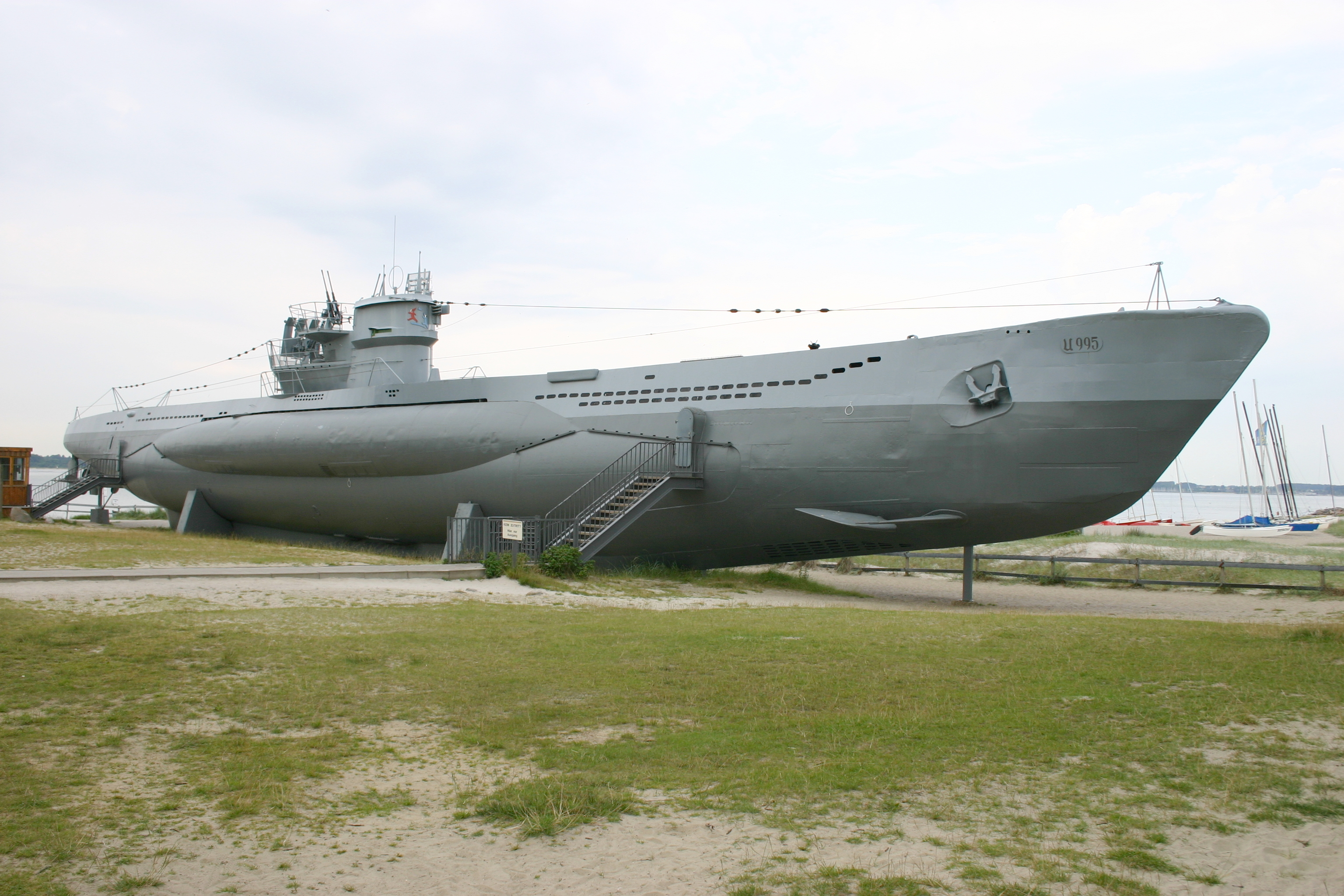 Submarine U 995 Typ VII-C Laboe 31.07.04